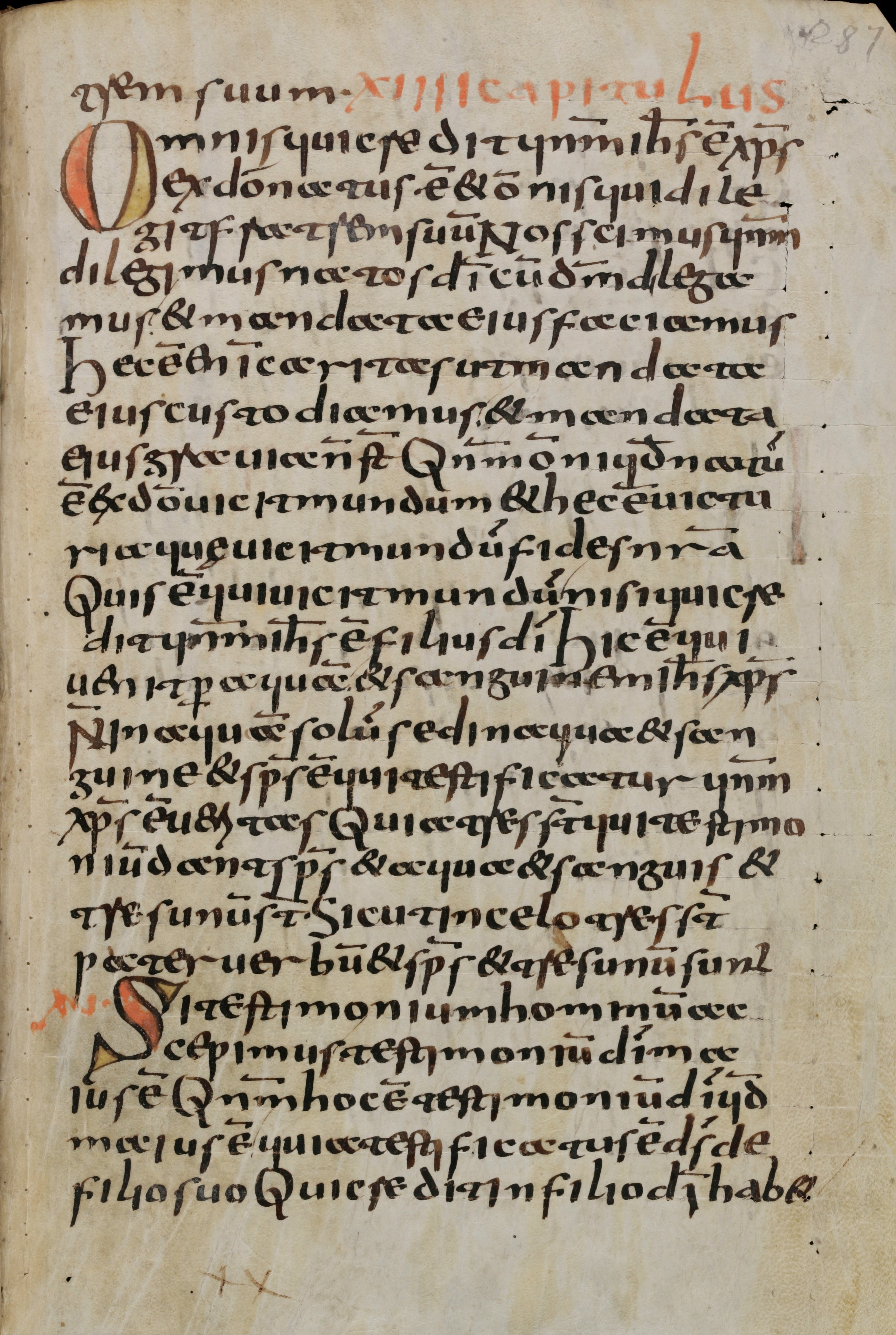 page 287 of the codex